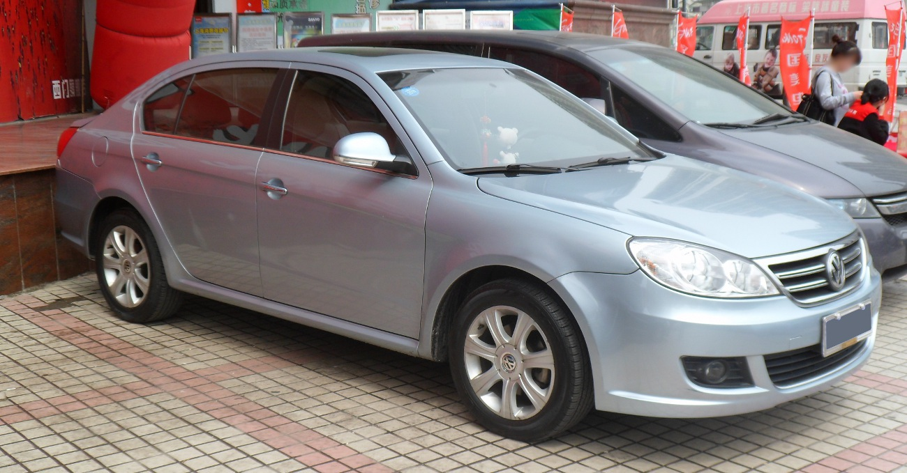 Volkswagen Lavida photographed in Shanghai, China.